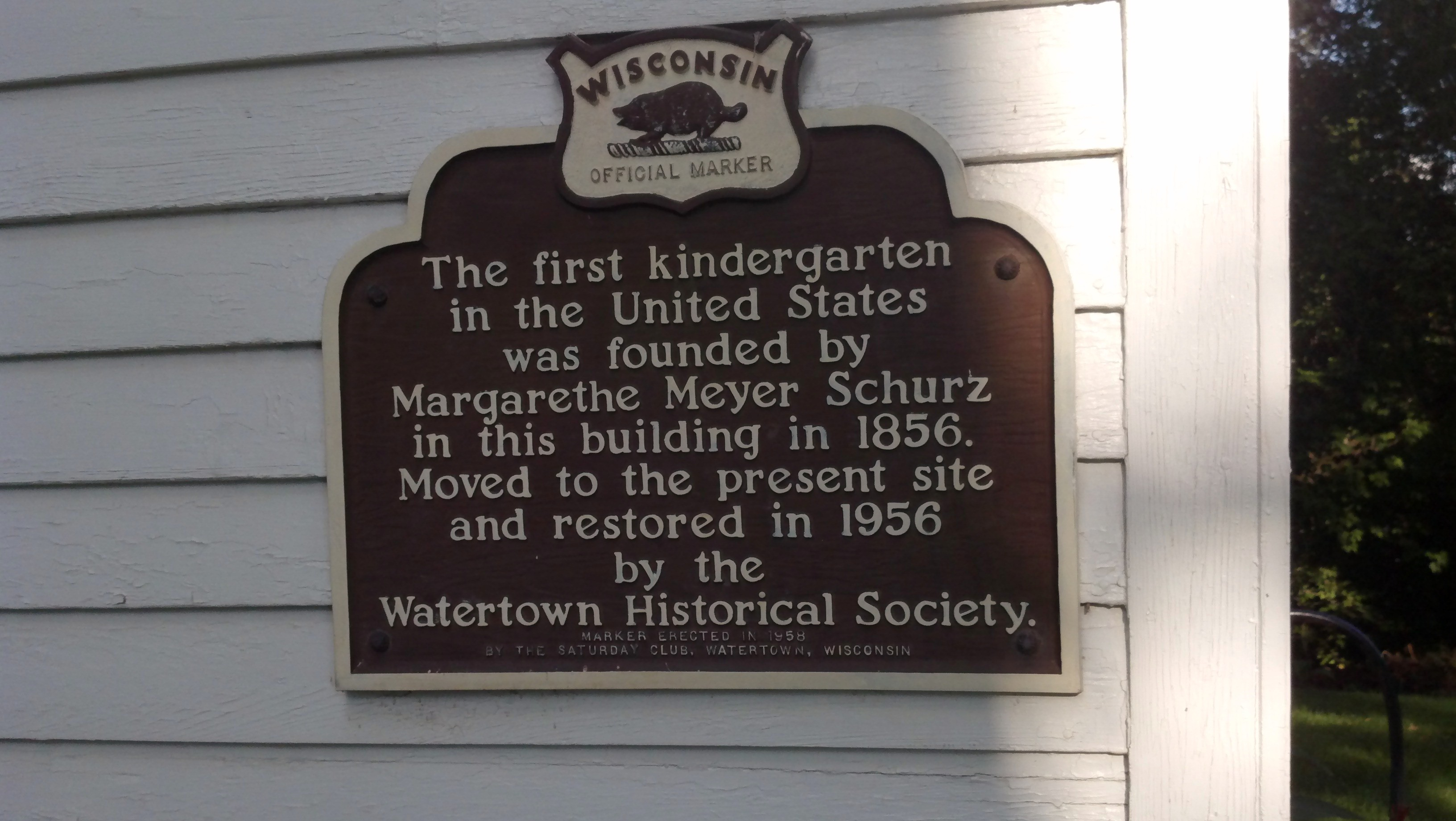 First Kindergarten